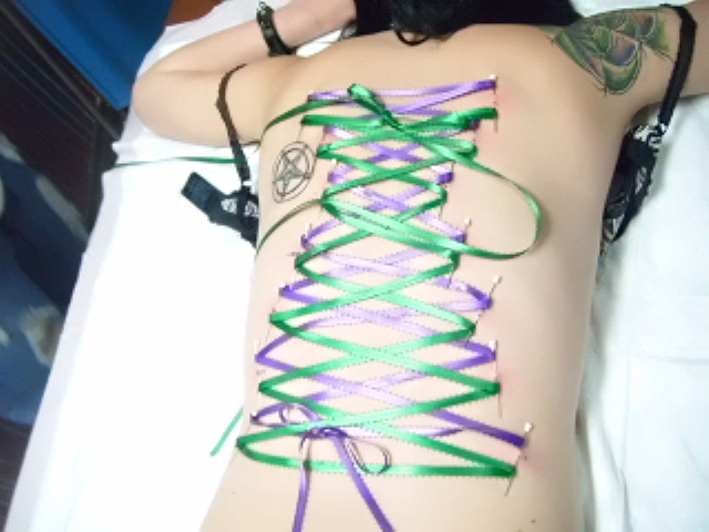 Corset piercing with straight needles